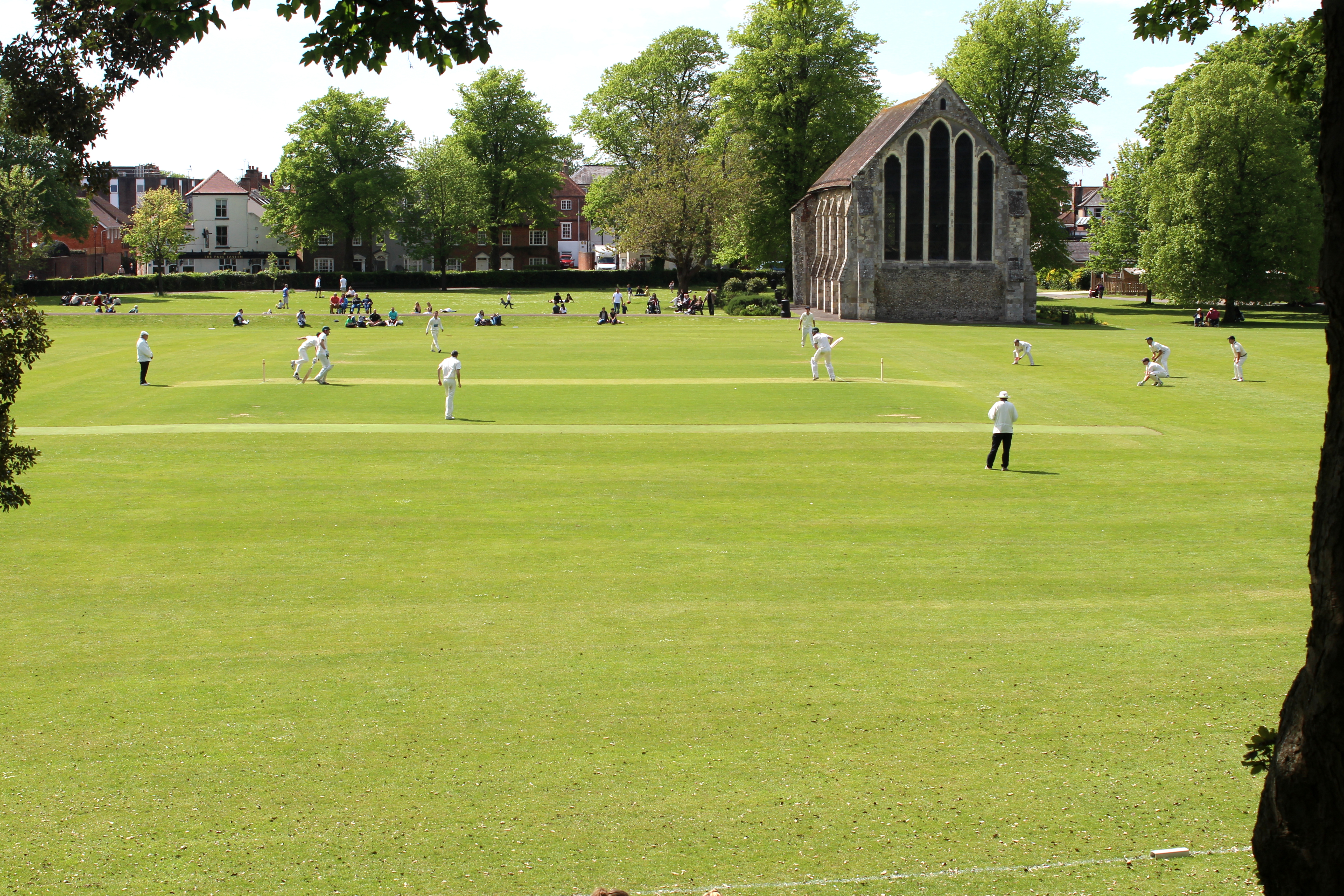 A view of the cricket match Chichester 1st XI vs Burgess Hill 1st XI at Priory Park, Chichester taken from the city wall. This view was taken while the ball was in flight between the batsman and bowler. Both batsmen, both umpires and eight of the eleven members of the fielding team are in the picture. The white line at the bottom of the picture is the boundary.